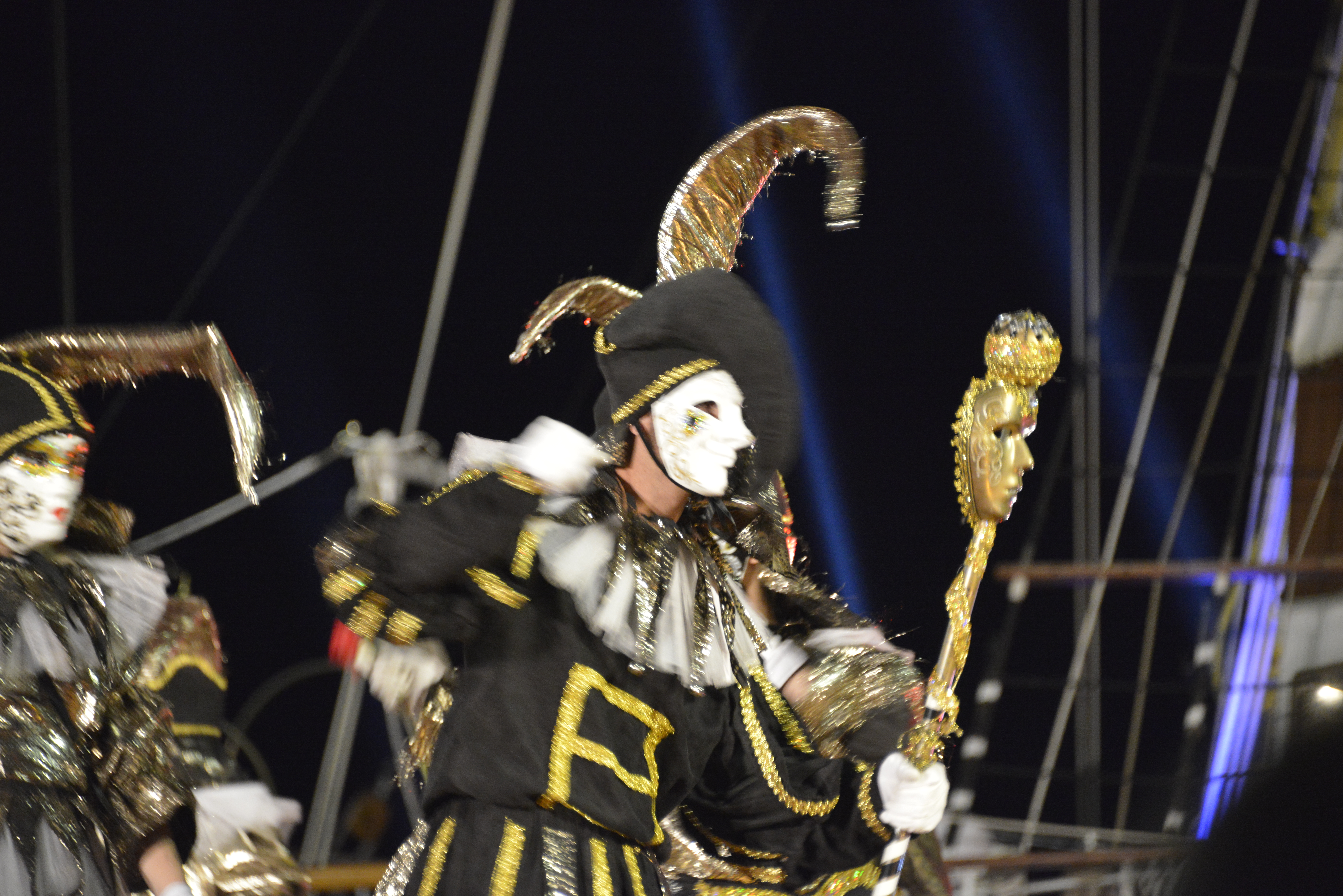 Carnival in Tivat in 2019, with the main stage in front of the ship "Jadran"